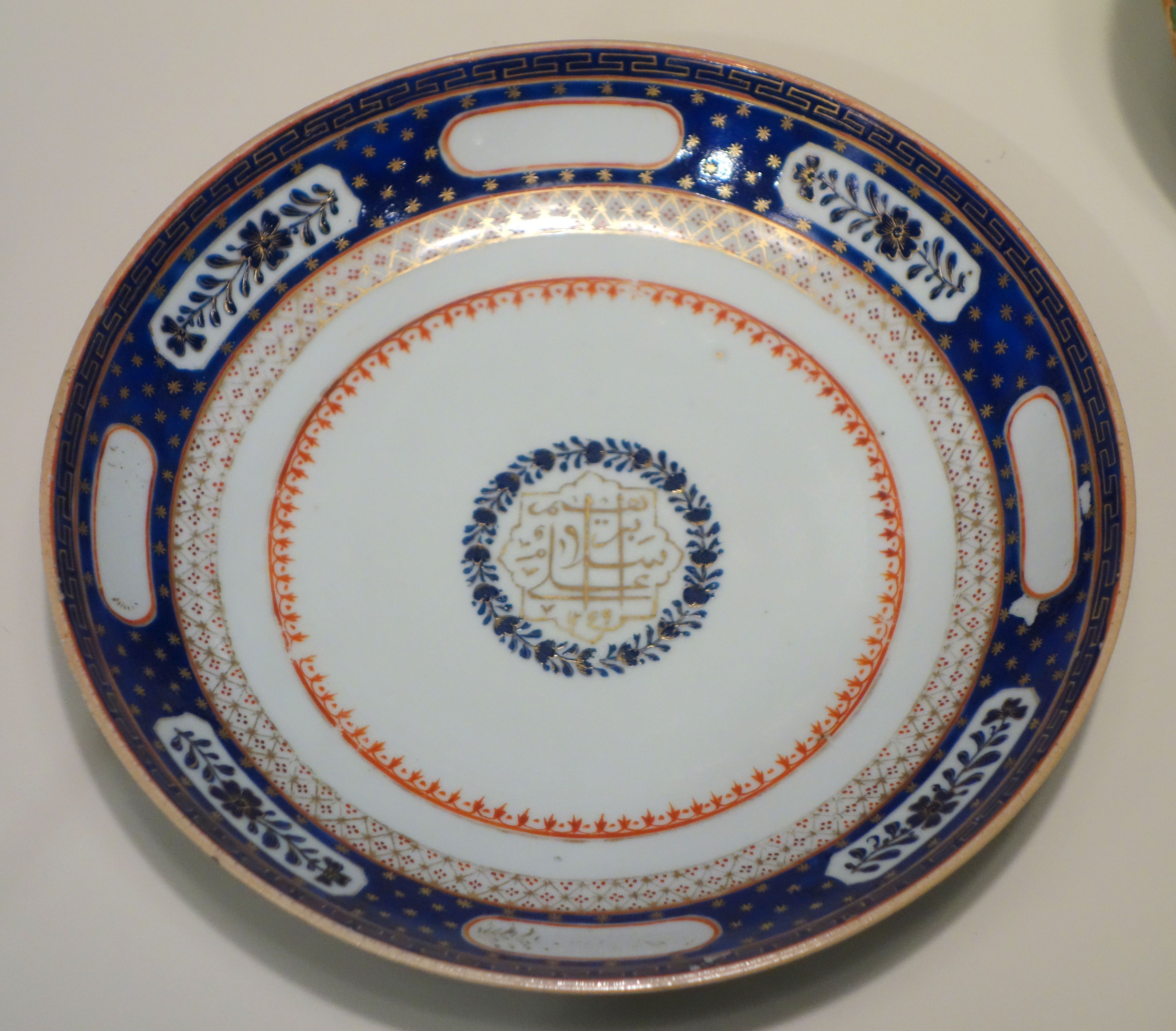 Exhibit in the Winterthur Museum, New Castle County, Delaware, USA. This work is in the public domain because the artist died more than 70 years ago.